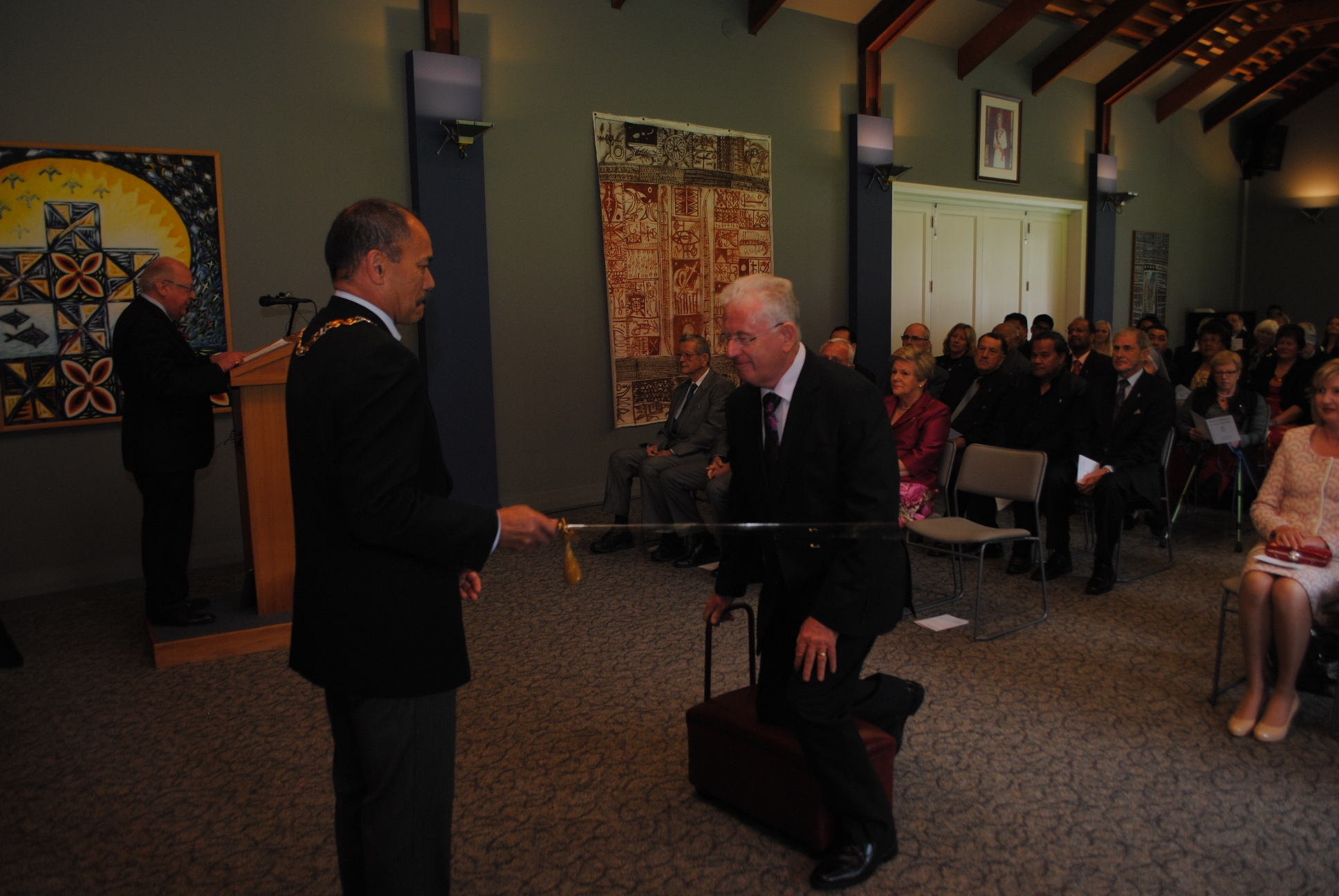 Michael Cullen receives knighthood